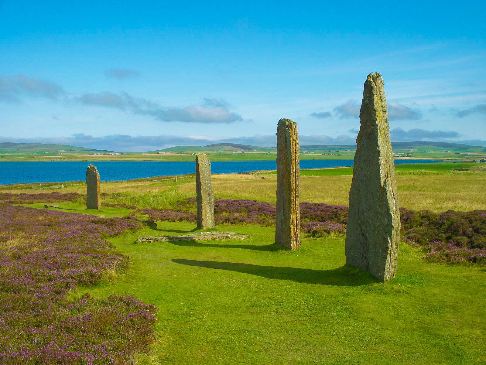 Ring of Brodgar